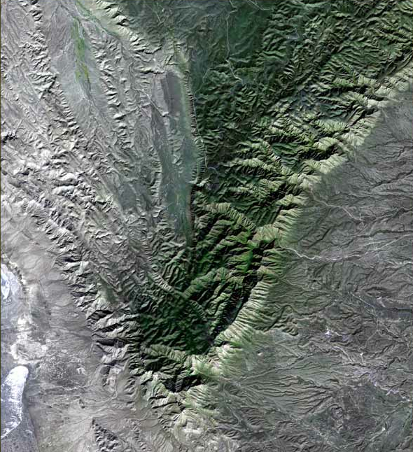 The raw satellite imagery shown in these images was obtain from NASA and/or the US Geological Survey. Post-processing and production by